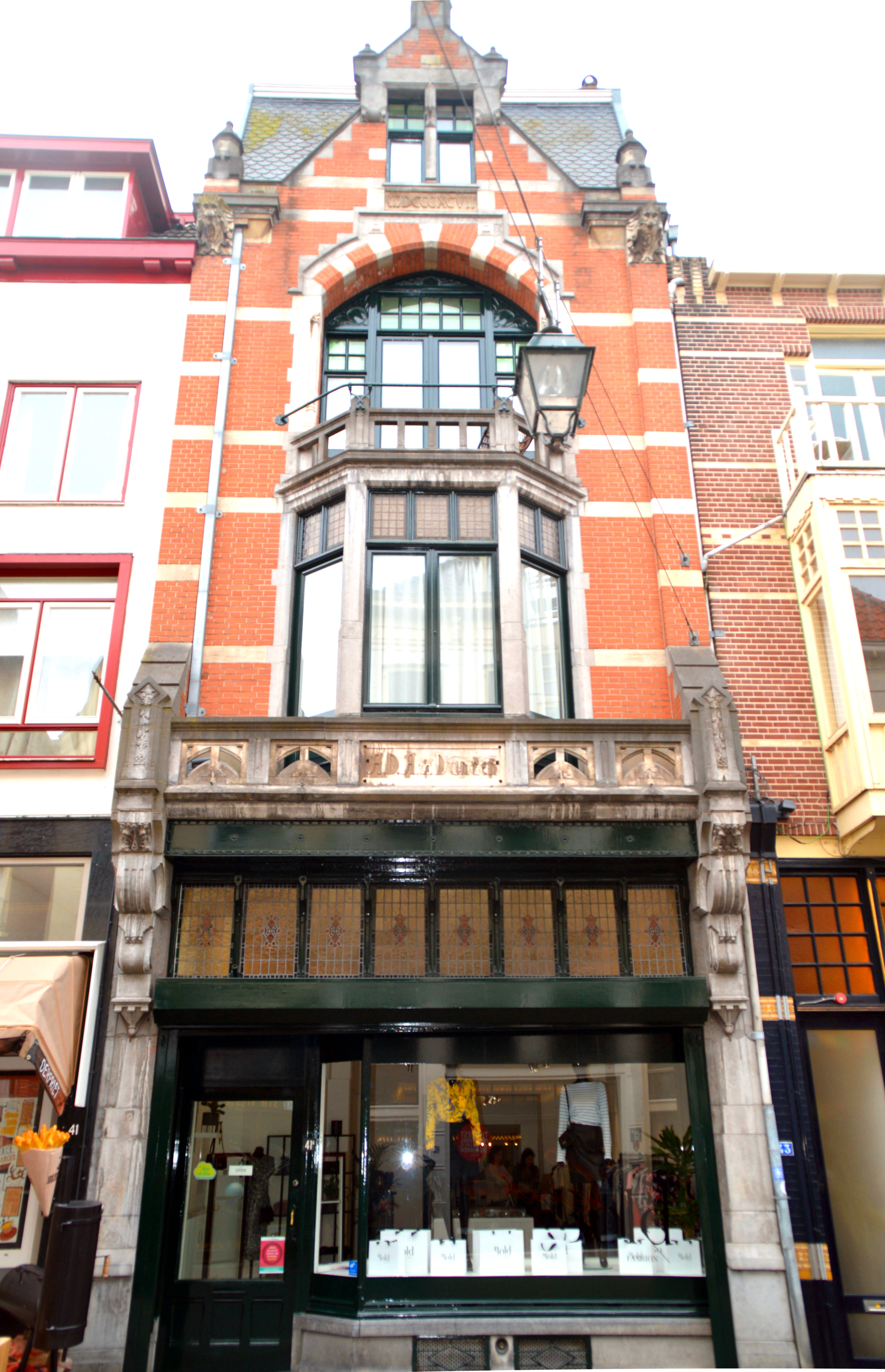 Lange Hezelstraat 41A Nijmegen 1897 Architect Derk Semmelink Art Nouveau National monument